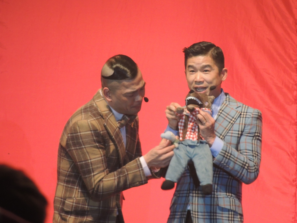 Ultimate Song Chart Awards 2013